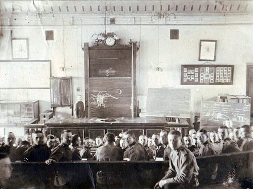 The Mikhailovskoye artillery school (Saint-Petersburg, Russia)